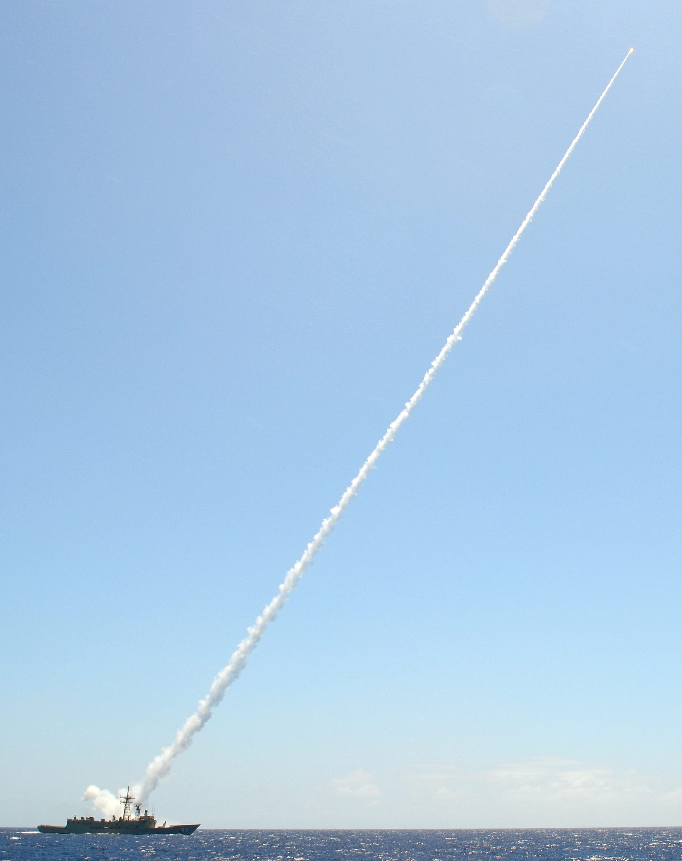 PACIFIC OCEAN (June 20, 2011) A Standard Missile (SM 2) is fired from the Royal Australian Navy guided-missile frigate HMAS Sydney (FFG 3) during a live-fire exercise near the Pacific Missile Range off the coast of Hawaii. Sydney was on a Mid Pacific (MIDPAC) deployment to test and evaluate the Anti-Ship Missile Defence (ASMD) upgrade. (Official Royal Australian Navy photo/Released)